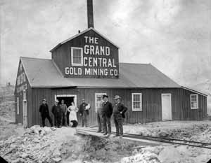 Gilpin Tram